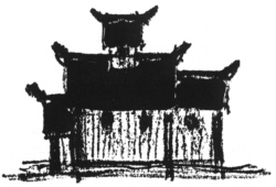 The oldest known church in Vikebygd, Norway. Probably build in 1250. Own drawing.